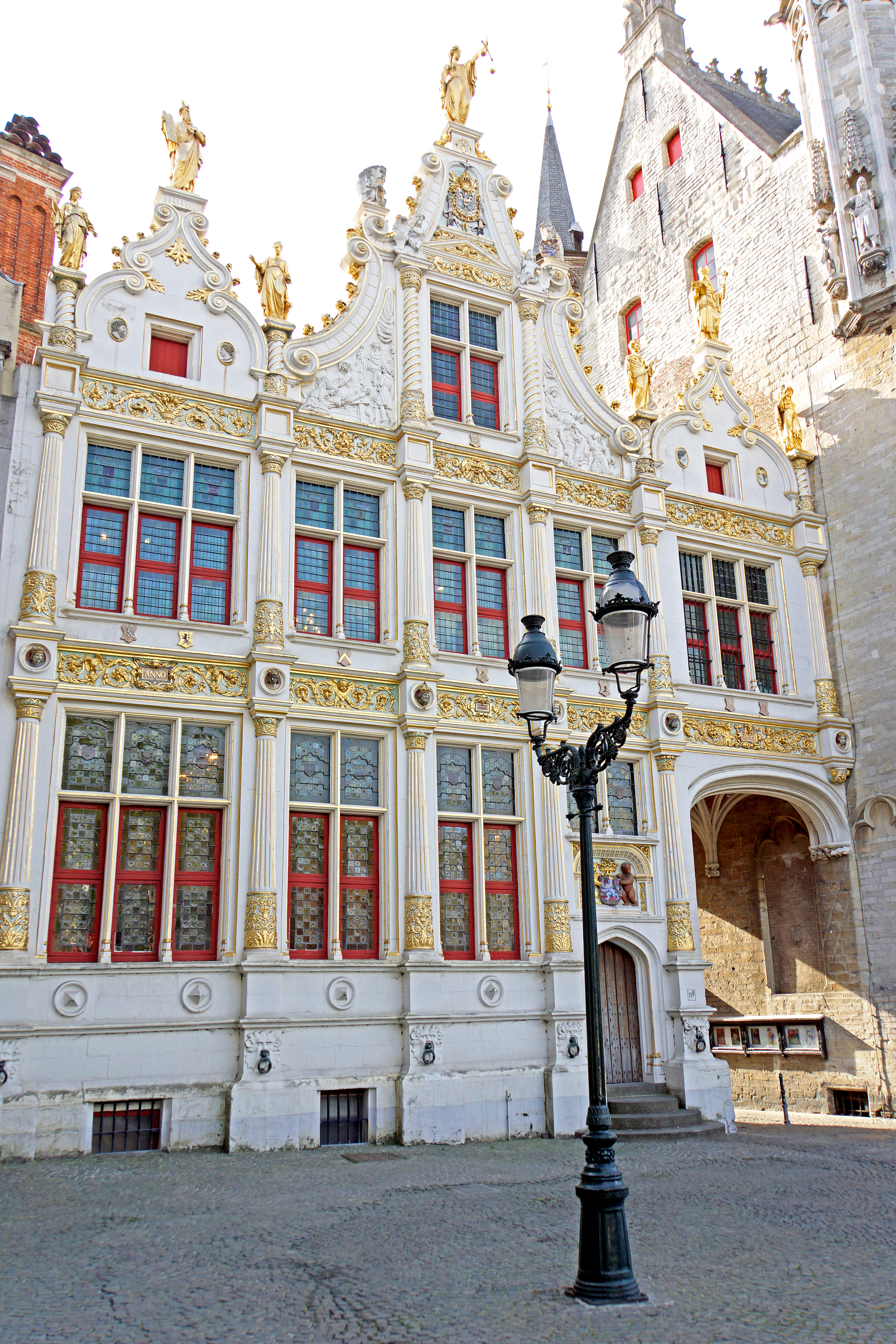 PLEASE, NO invitations or self promotions, THEY WILL BE DELETED. My photos are FREE to use, just give me credit and it would be nice if you let me know, thanks. Old Civil Registry in renaissance style. (1534-1537). The decorative statues were also smashed to pieces in 1792, but later renovated. The bronze statues represent Justice, Moses and Aaron. Since 1883 the building is used as Peace Court.